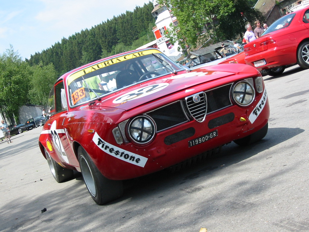 Alfa Romeo 1300 Junior GTA